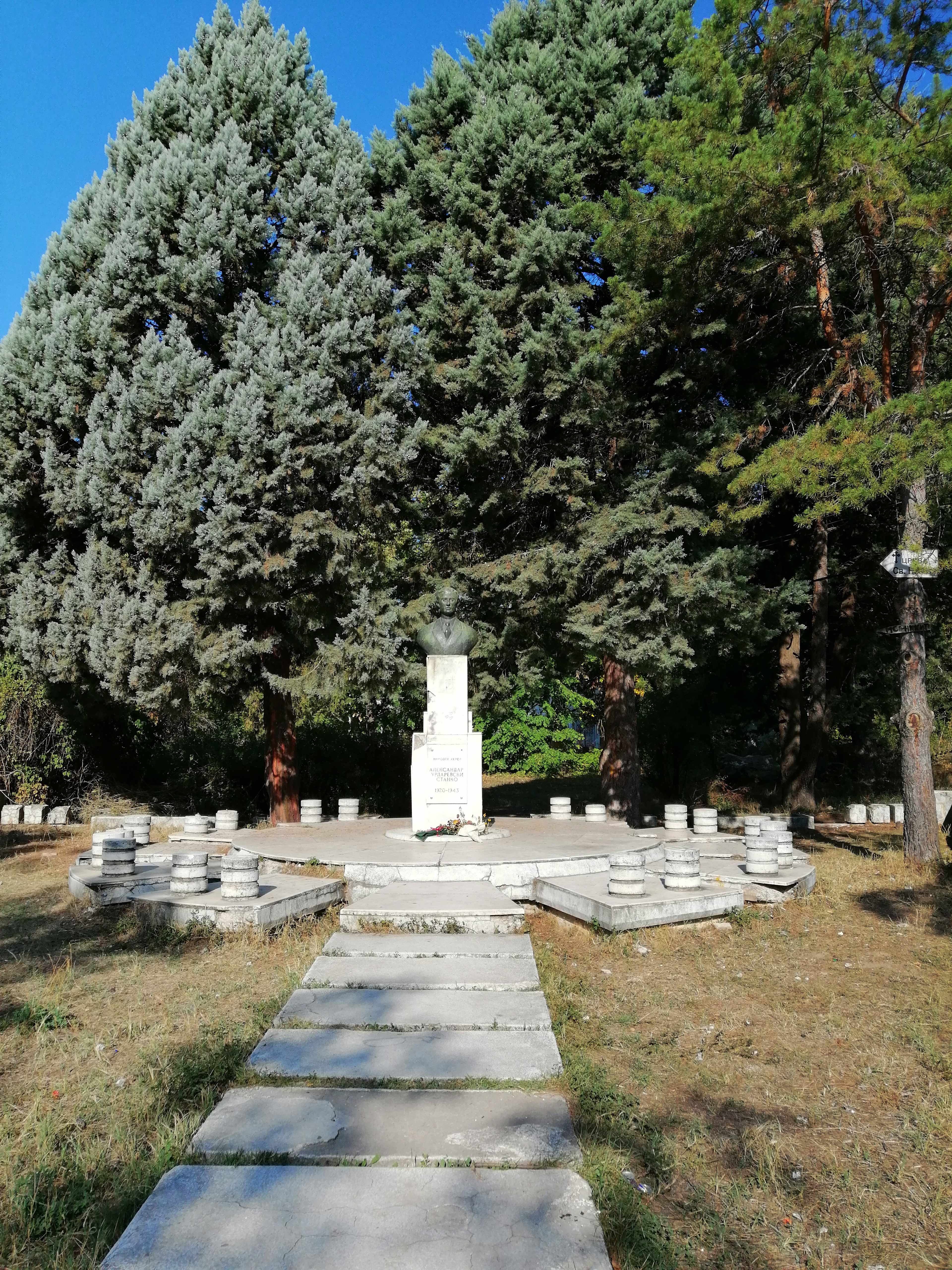 Bust of Aleksandar Urdarevski